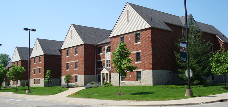 Village residence halls at EMU